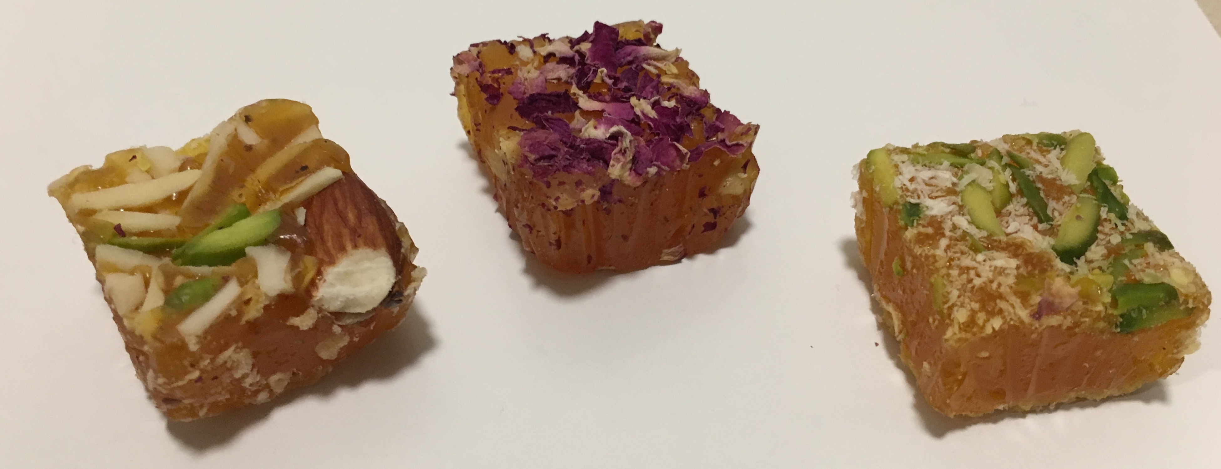 Three pieces of Larestan's Masghati. Bought in Shiraz.